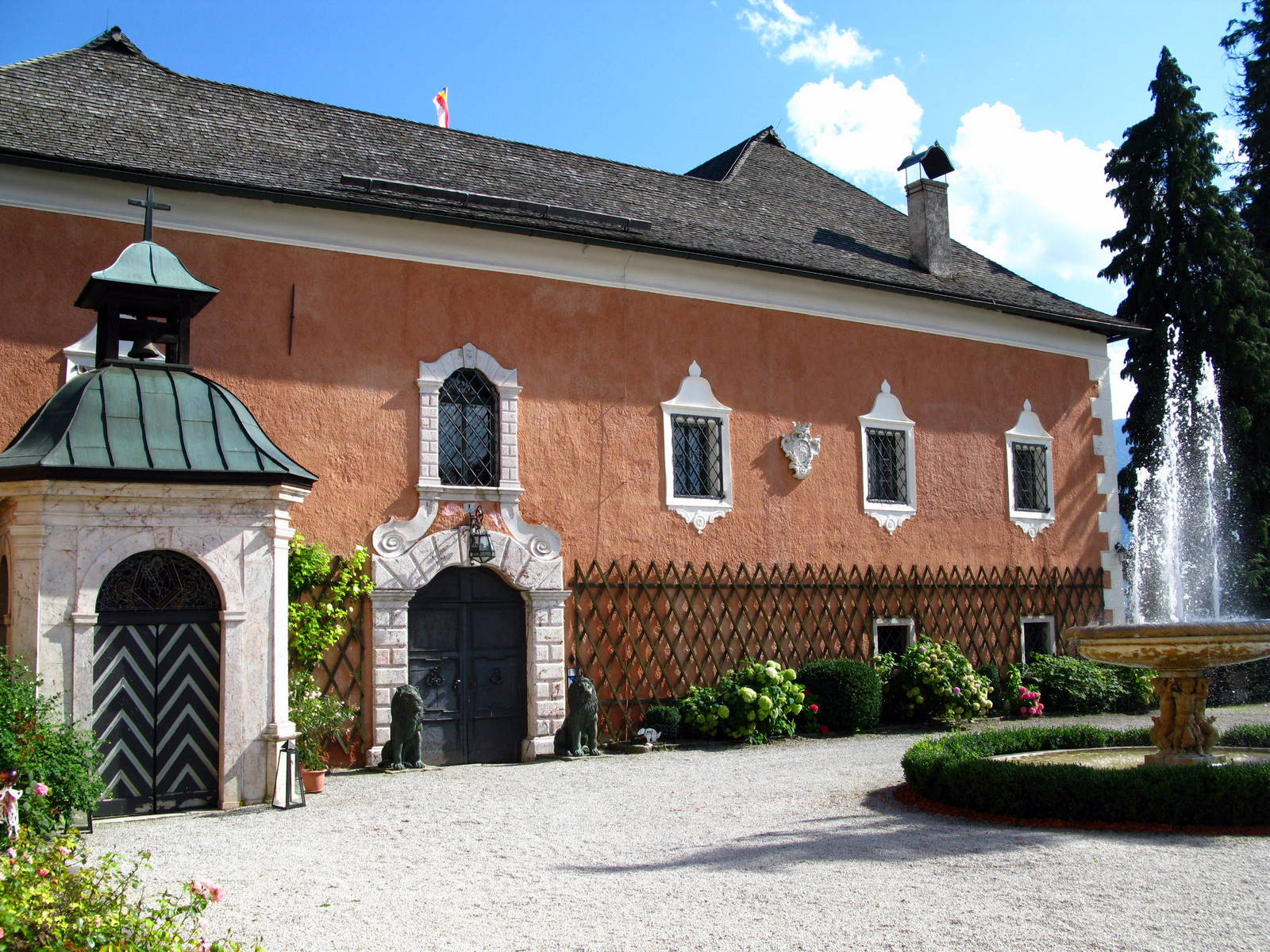 Wasserleonburg castle near Nötsch im Gailtal in the south of Carinthia in Austria / European Union.